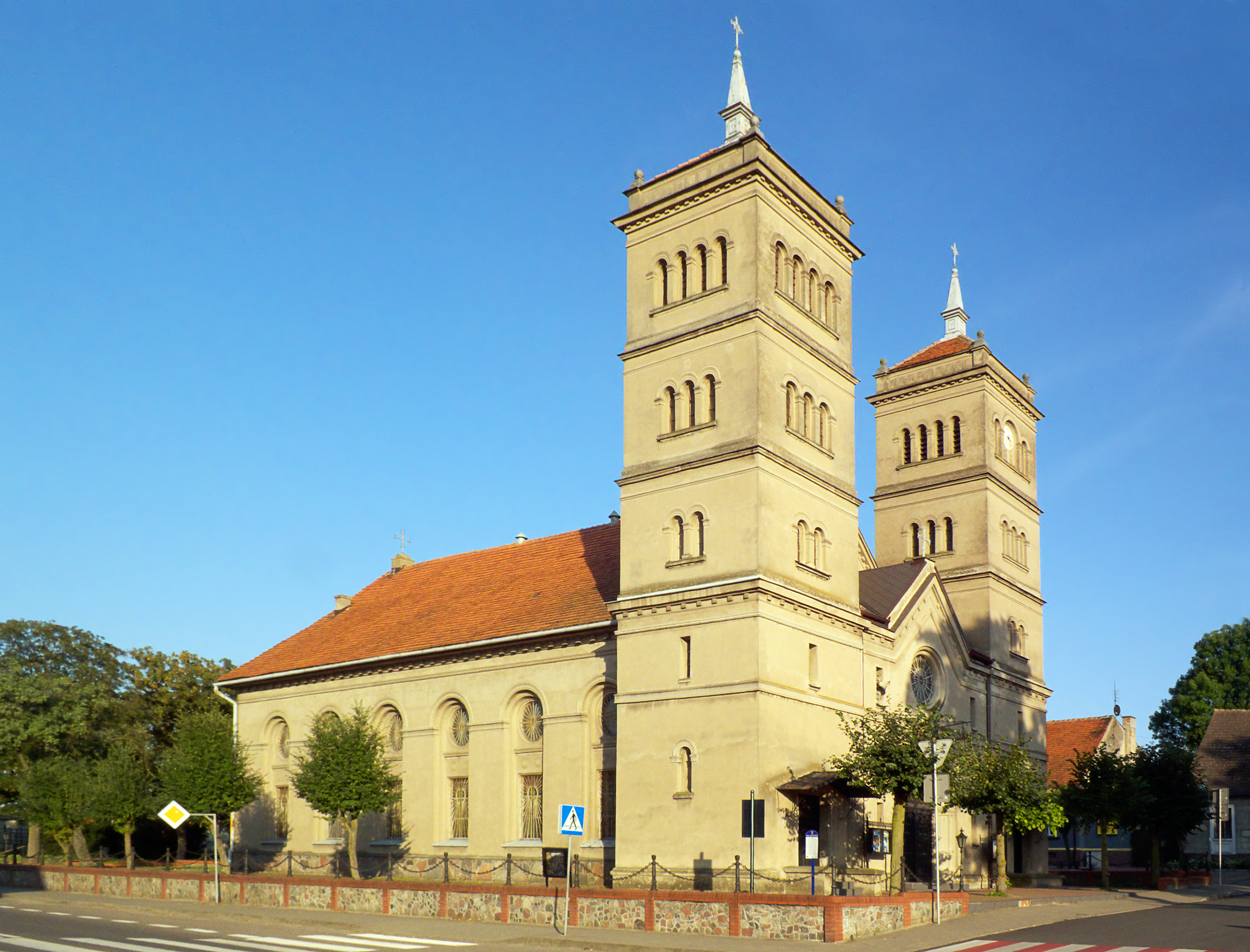 Szamocin; St. Peter&Paul Church [formerly evangelical church]